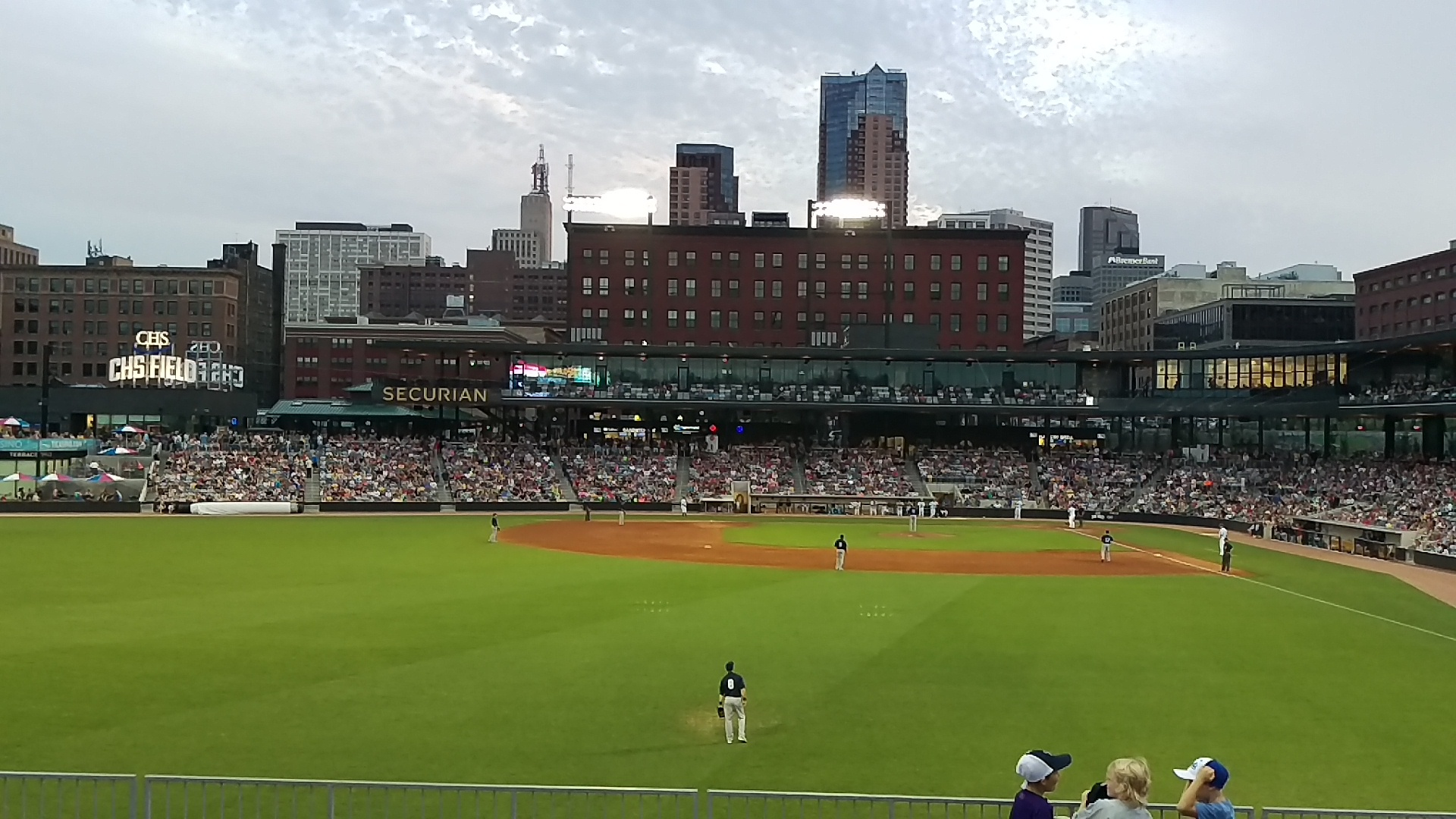 Atheist sponsored game on August 8, 2015.